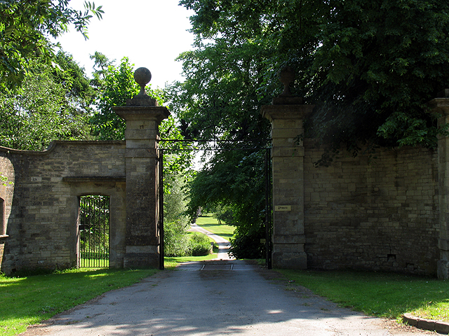 Entrance to Ampney Park. The entrance, photographed from the A417 is in the north western section of the square. Most of Ampney park is in a different square.